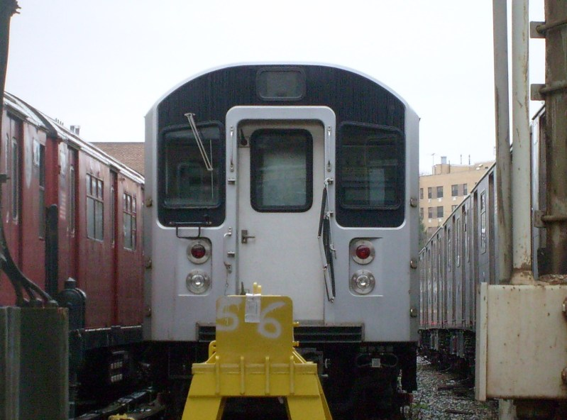 R110A at the 239th Street Yard in the Bronx.